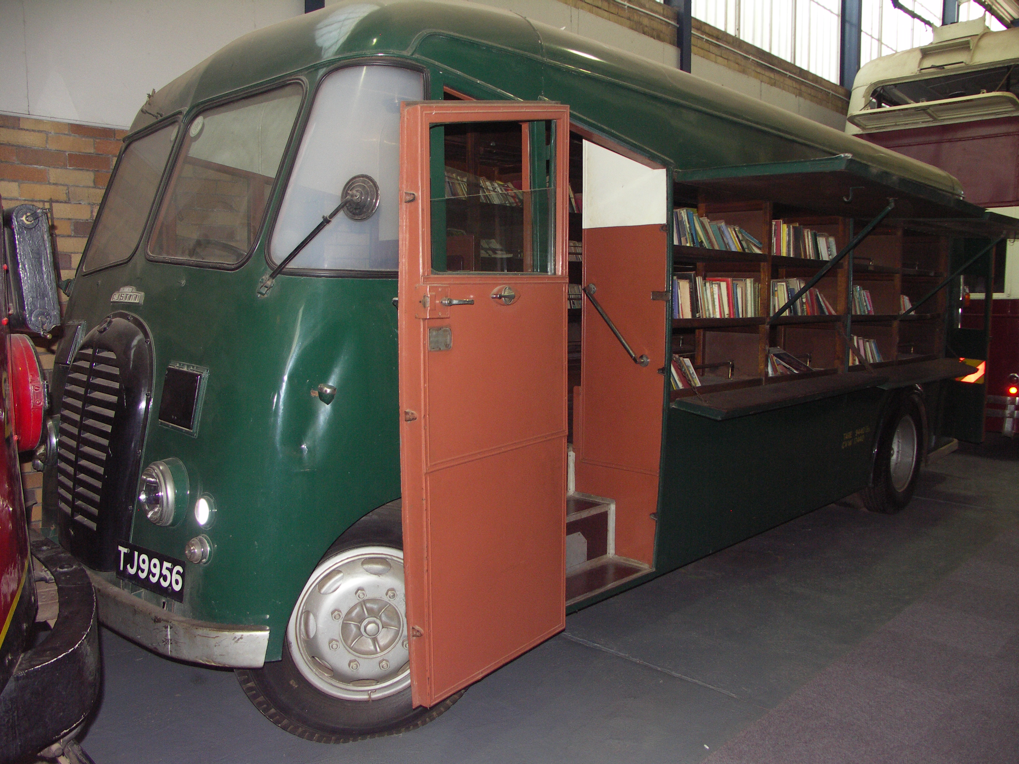 A traveling library used in Johannesburg, South Africa between 1955 and 1965. Now housed at the James Hall museum of Transport in Johannesburg.